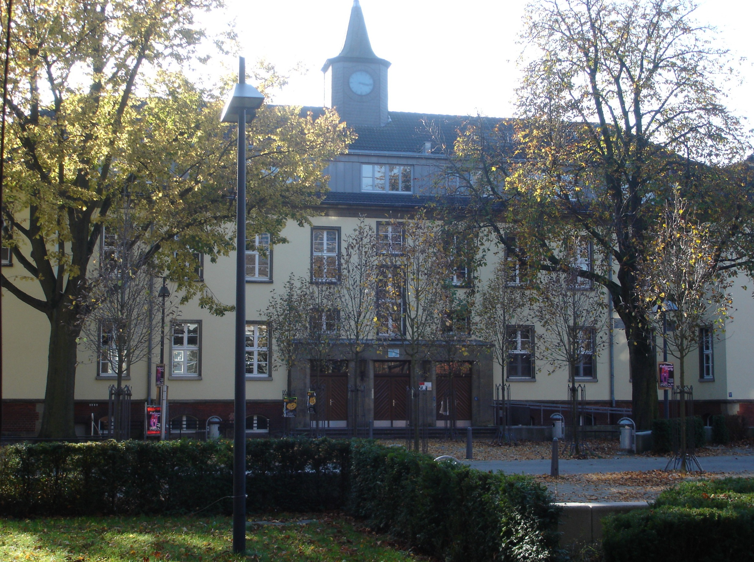 Leonardo-Campus in Muenster (Westphalia), Germany (Mensa-building, frontside)